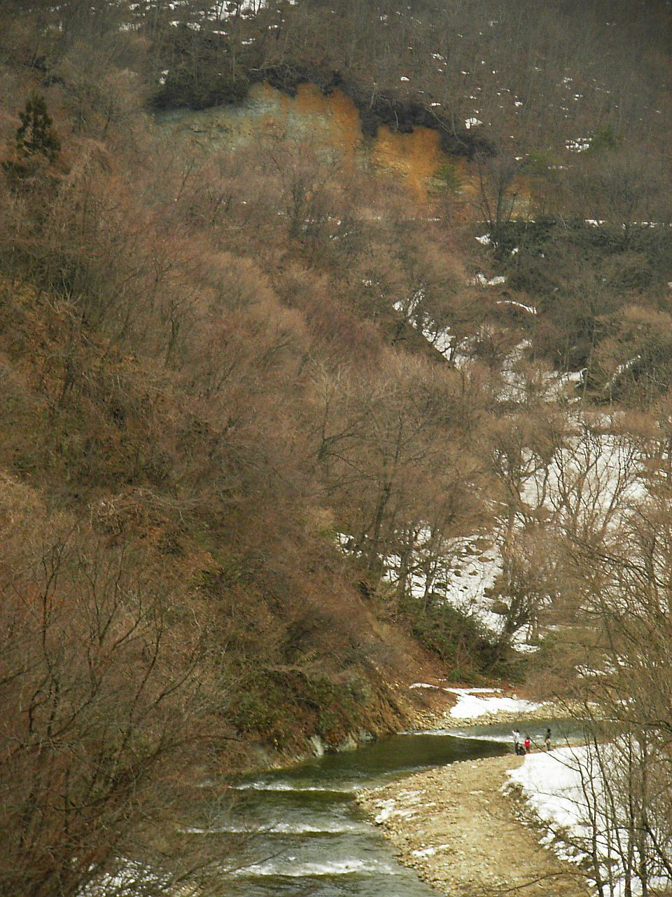 Hirose River. Sendai, Miyagi prefecture, Japan.